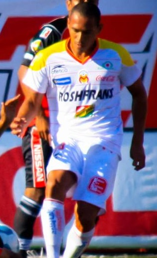 Colombian player Aldo Ramirez